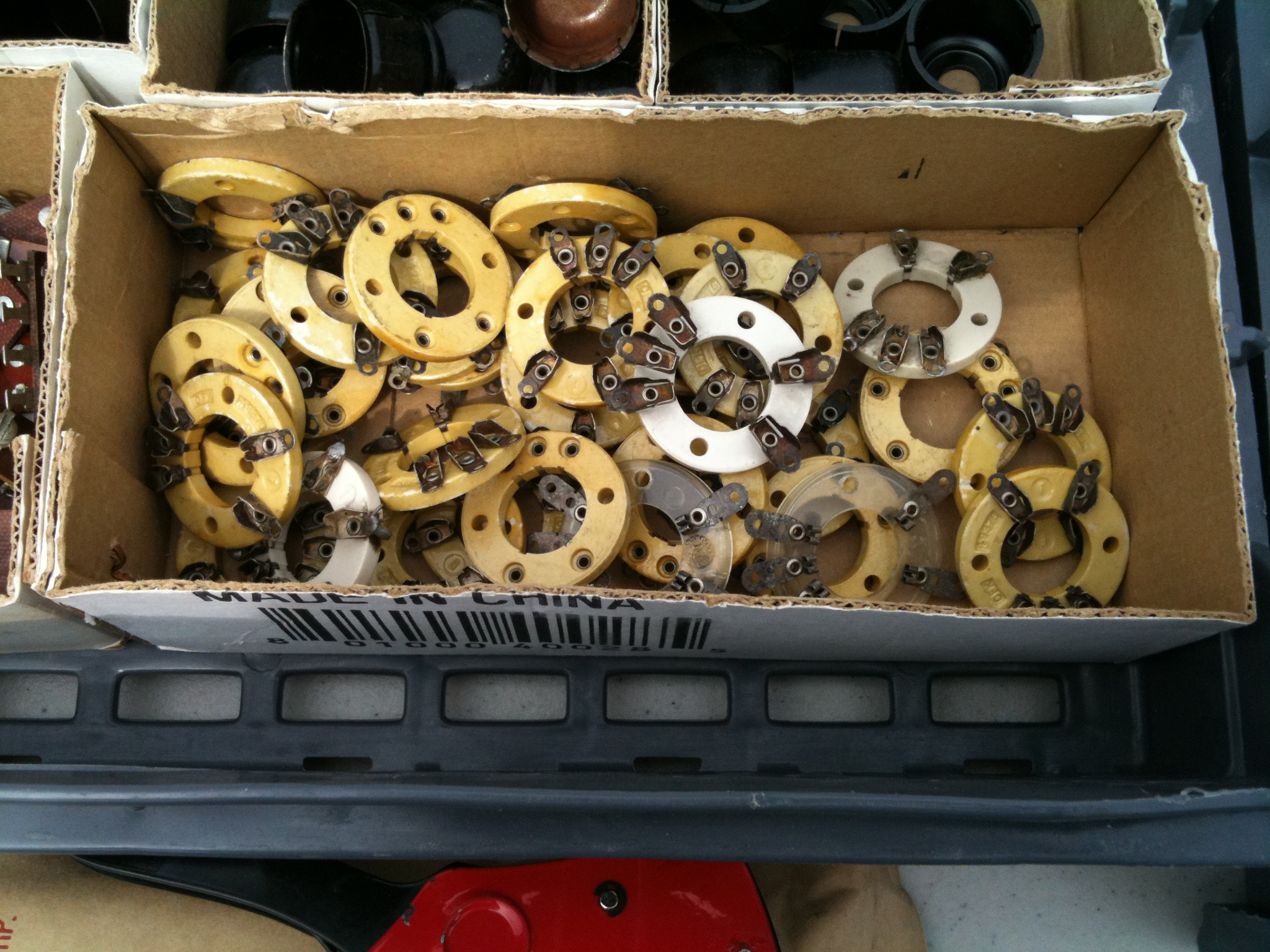 A box of sockets for Acorn tubes, for sale at the August 2010 MIT SwapFest.